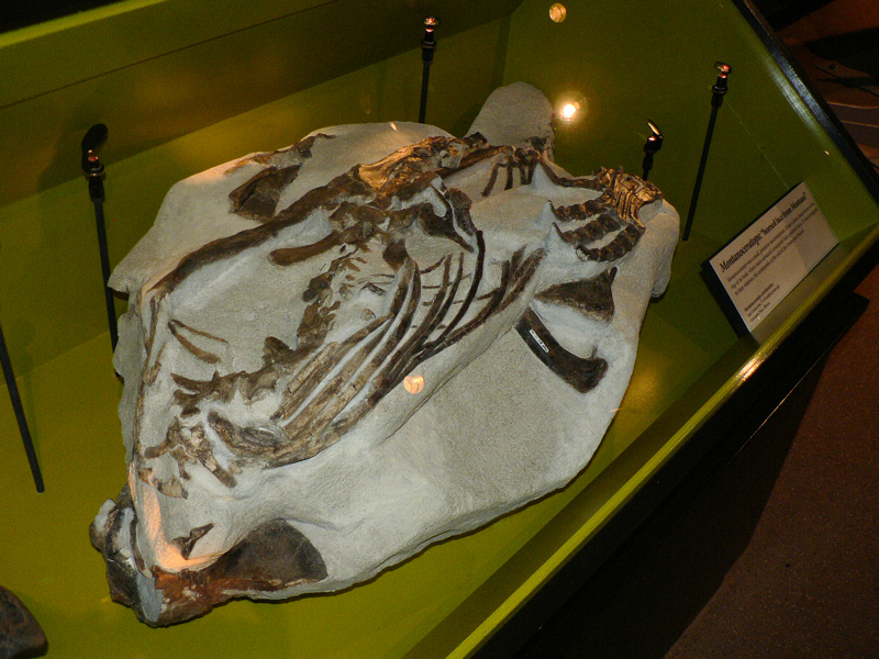 Montanoceratops fossil from the Royal Tyrrell Museum.